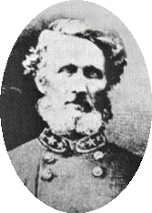 A photo of John Wilkins Whitfield (1818-1879), downloaded from Image is in the public domain due to being published before 1923.